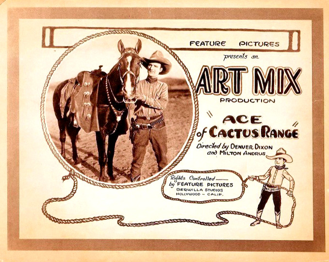 Poster for the 1924 film Ace of Cactus Ridge. The item has no copyright markings on it as can be seen in the link above.